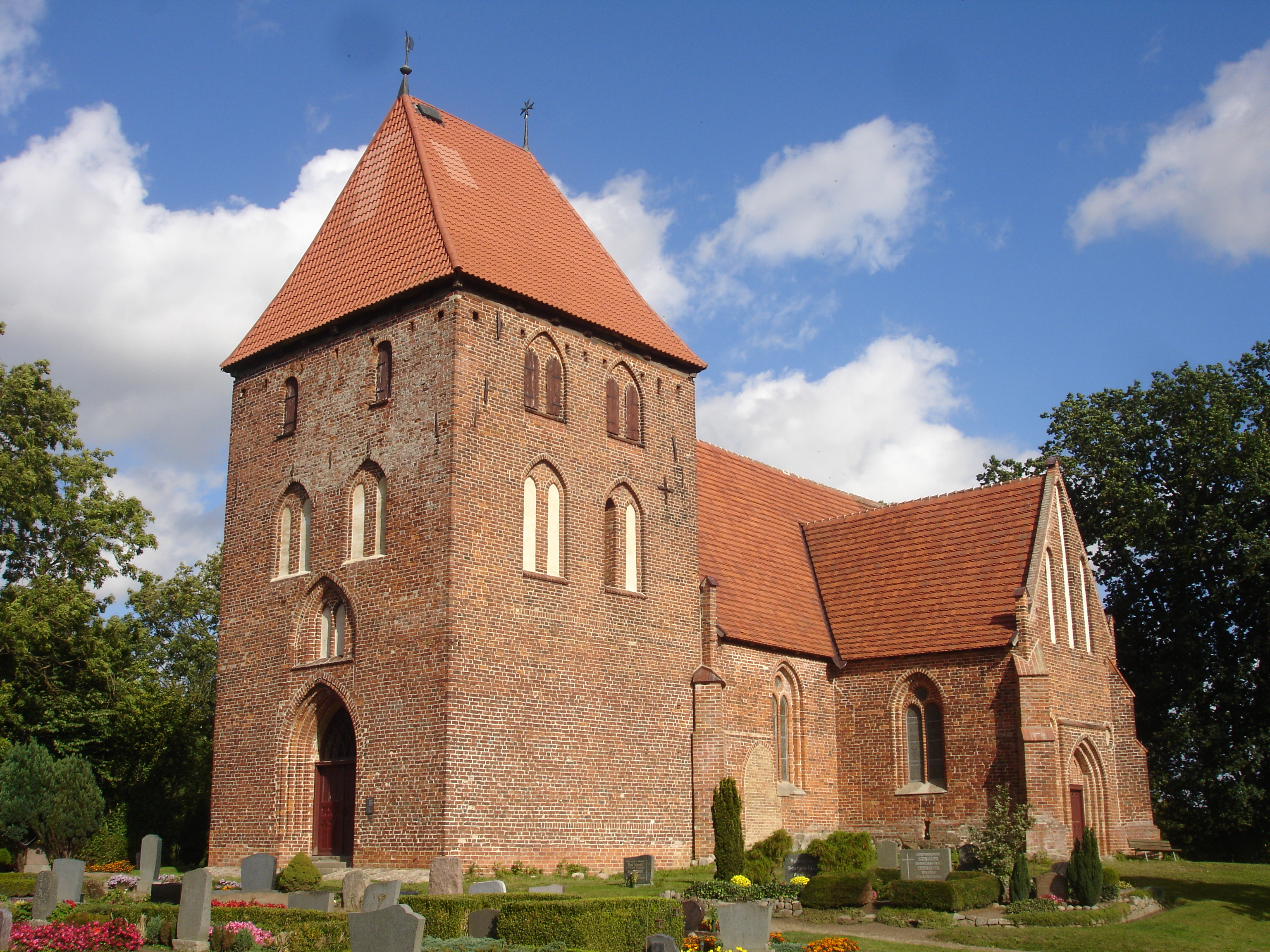 Church in Groß Eichsen, district Nordwestmecklenburg, Mecklenburg-Vorpommern, Germany